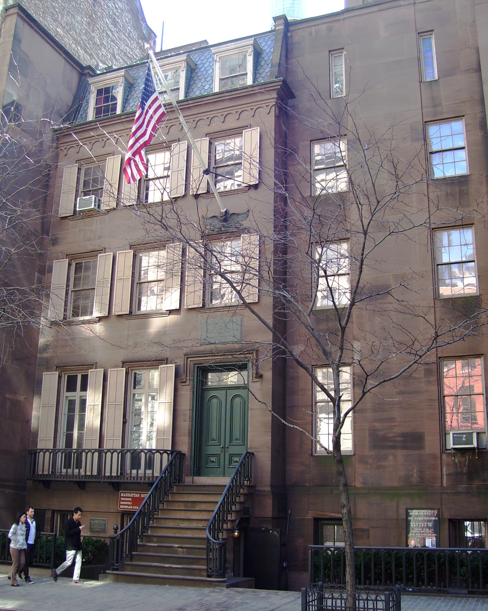 Theodore Roosevelt's Birthplace, a National Historic Site, at 29 East 20th Street, between Broadway and Park Avenue, in Manhattan, New York City. The original building, built in 1848, was demolished in 1916, and rebuilt in 1923 as a replica of the house's state in 1865. Roosevelt was born here in 1858 and the family lived here until 1872, when they moved uptown.